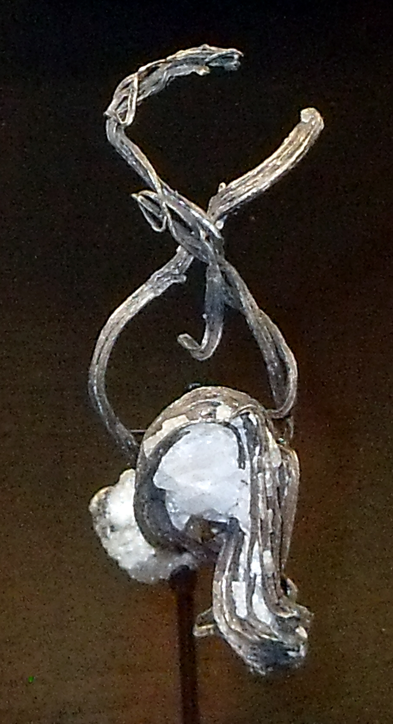 Neat wrap-round of wire silver on display at Canadian Museum of Nature, Ottawa, Canada. After some searching, this is a specimen of silver on calcite from Silver Islet Mine, Ontario, Canada. postscript: here's a link to the reef that became a mine out in Lake Superior When a major museum fails to provide provenance for their specimens, then visitors are not able to fully appreciate a world-class collection. I think we all look for and want to compare our country`s or locality`s bounty. Both the ROM in Toronto and the CMN in Ottawa recently renovated their outstanding mineral galleries with the sponsorship of international mining companies and somehow? lost their labels.